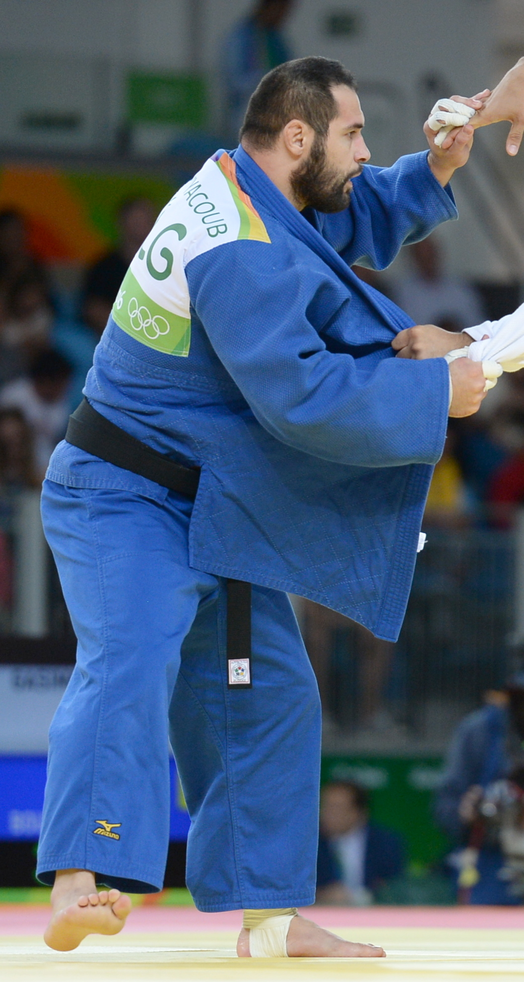 Judo at the 2016 Summer Olympics, Gasimov vs Bouyacoub